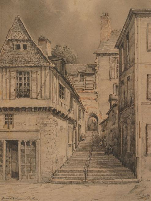 Drawing of the great postern in Mans by Louis Moullin.